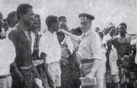 General Émile Janssens speaking with Congolese in Ndjili commune while on a larger tour of all the Congolese communes in the city following the Léopoldville riots